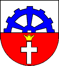 Coat of arms of the municipality Bäk in Schleswig-Holstein, Germany.